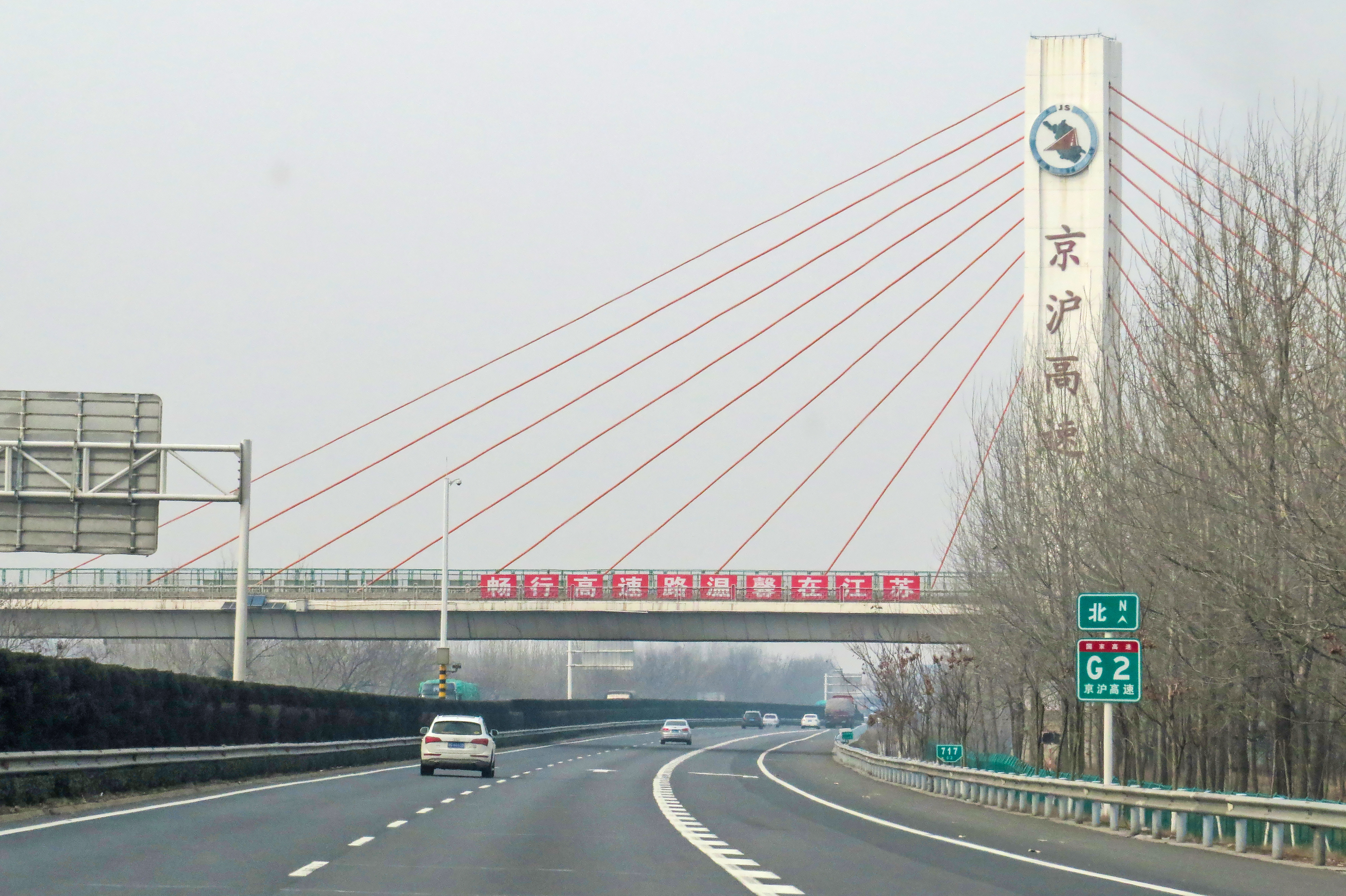 Between the Duanzhai Interchange and Shandong-Jiangsu Toll Plaza.